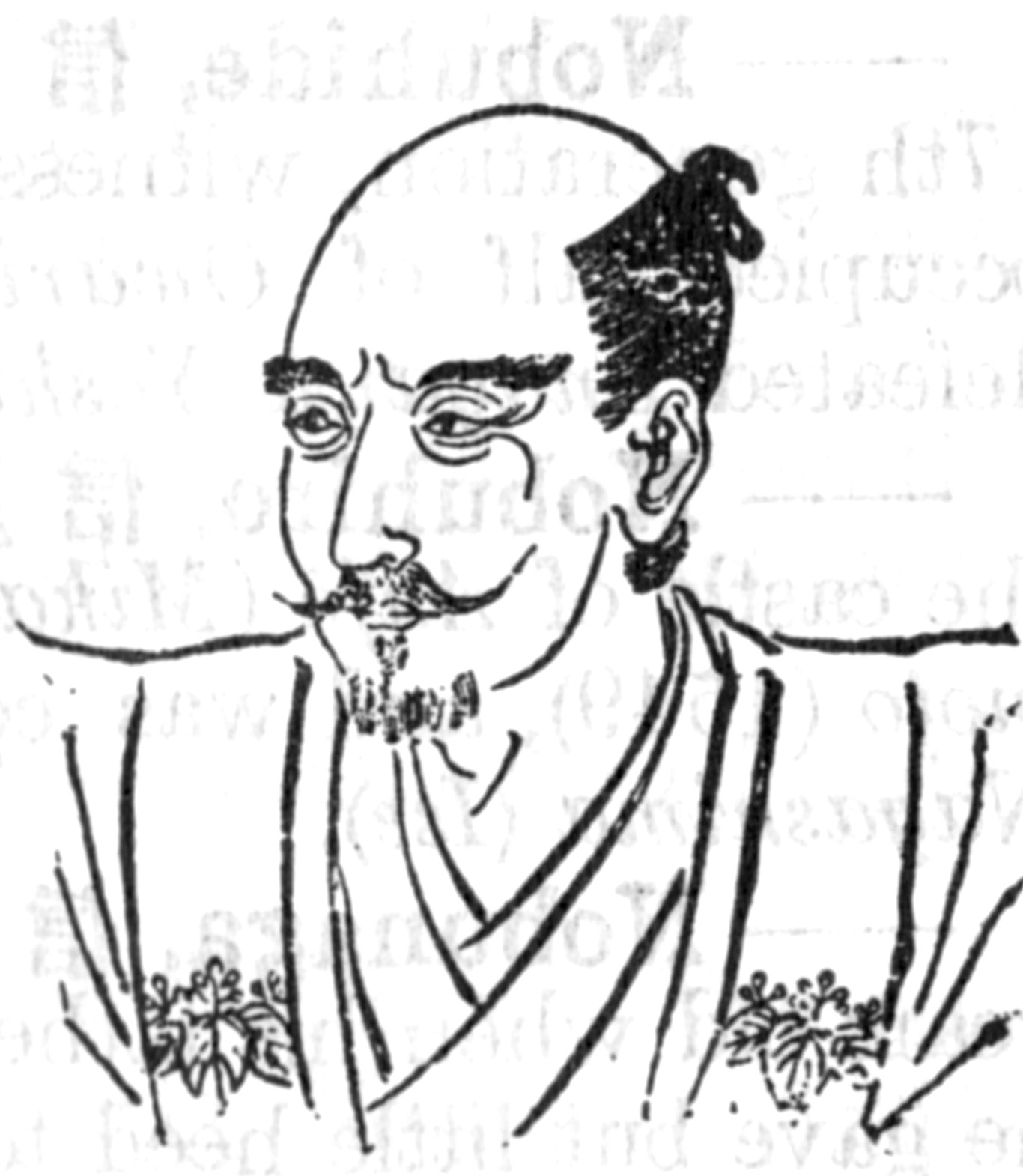 Oda Nobunaga